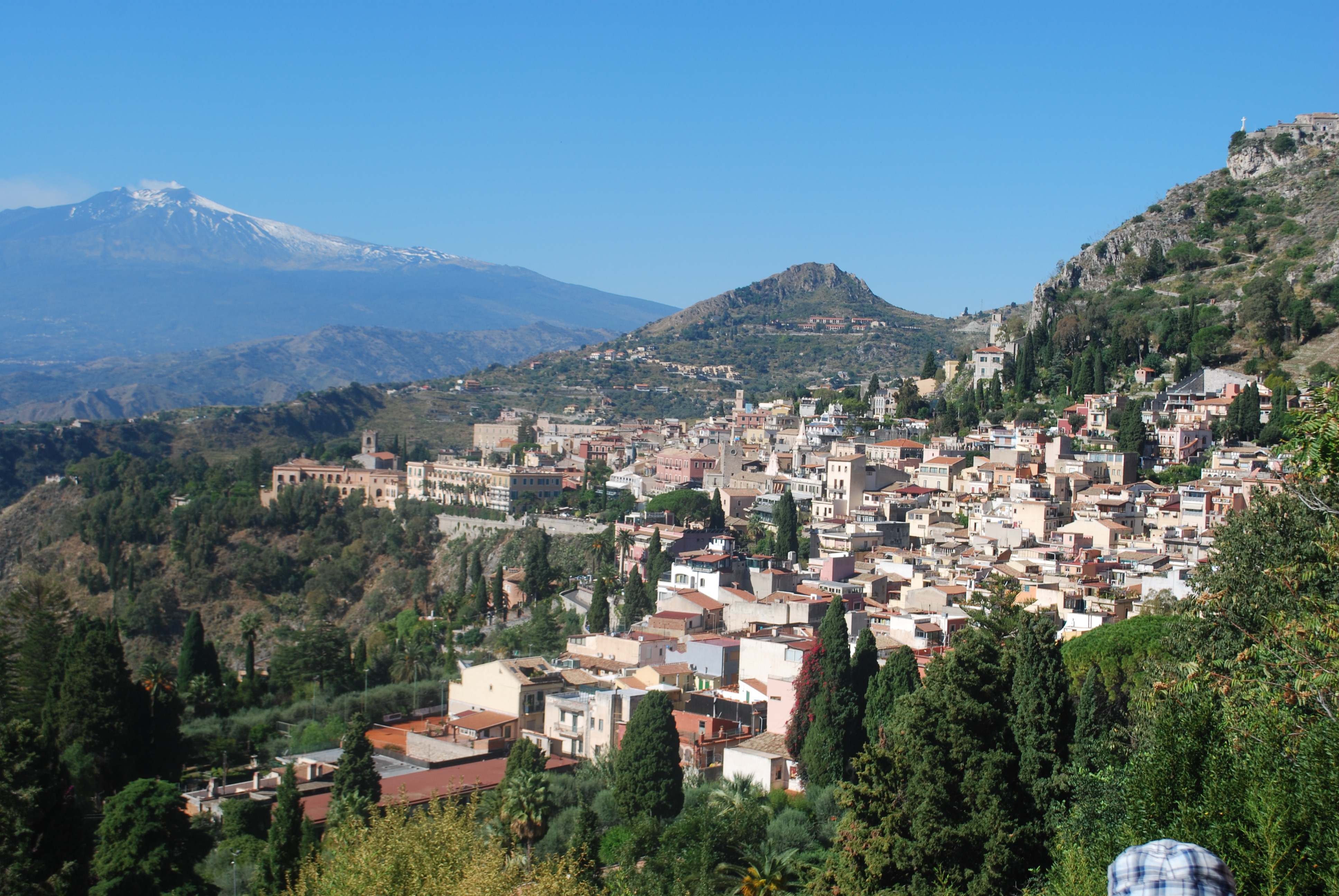 Taormina as view from the Greek Theather. Mt. Etna in the background.